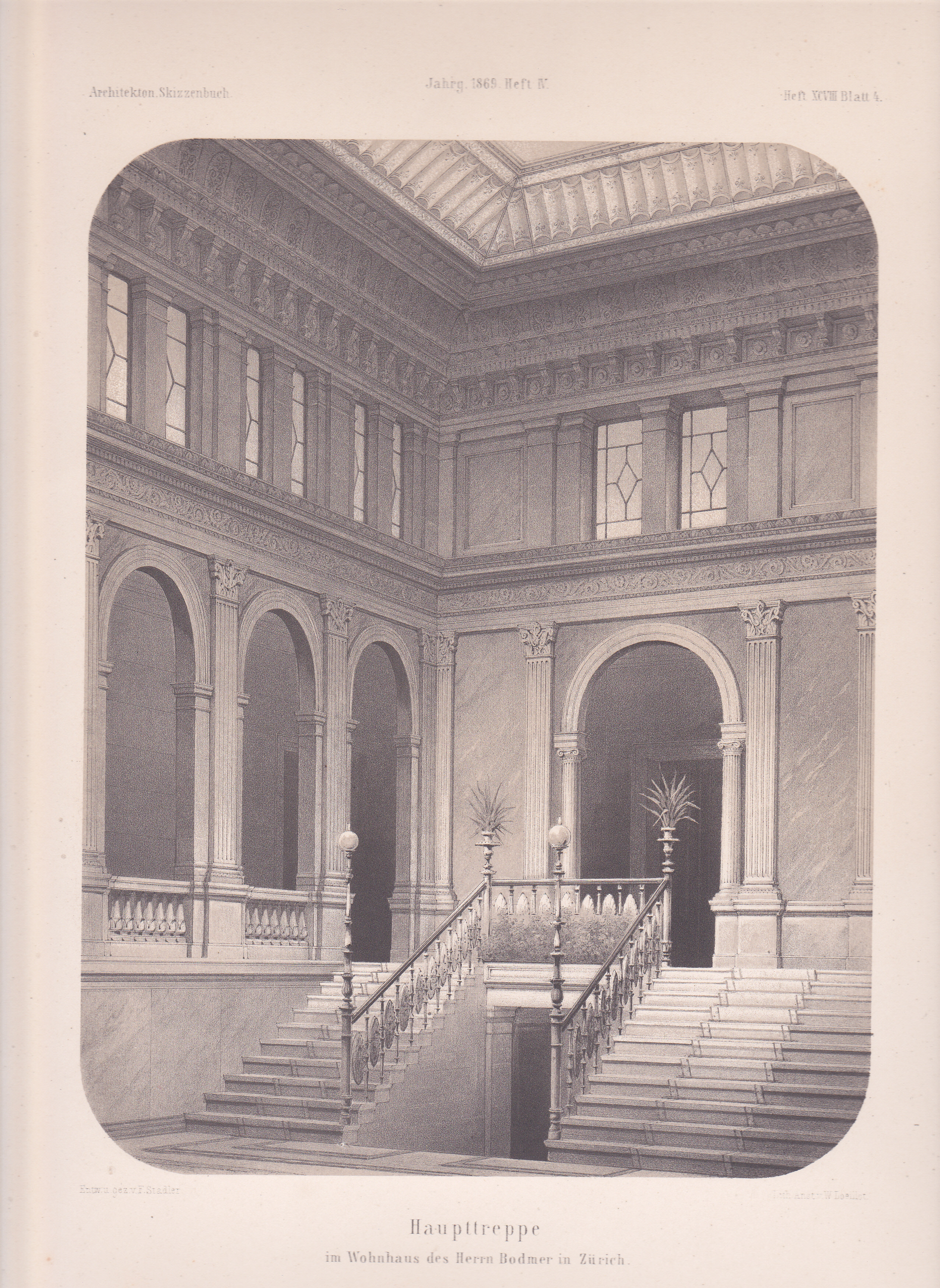 Main staircase of villa "Zum neuen Sihlgarten", built by Swiss architect Ferdinand Stadler (1813-1870) between 1856 and 1859 for silk manufacturer Martin Bodmer-Keller at the Sihlstrasse in the centre of Zurich, published in "Architekten Skizzenbuch", edited by v. Ernst & Korn in Berlin, 1869, volume IV